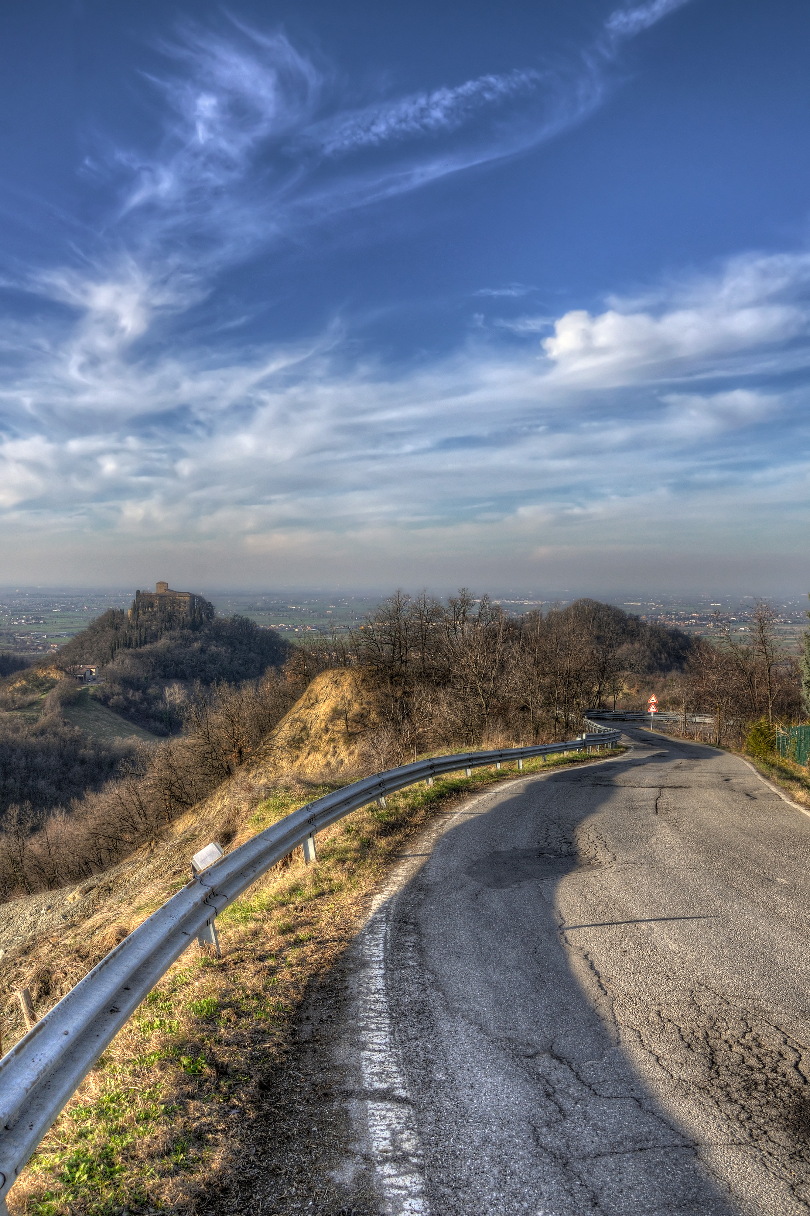 Castello di Bianello - Quattro Castella, Reggio Emilia, Italia